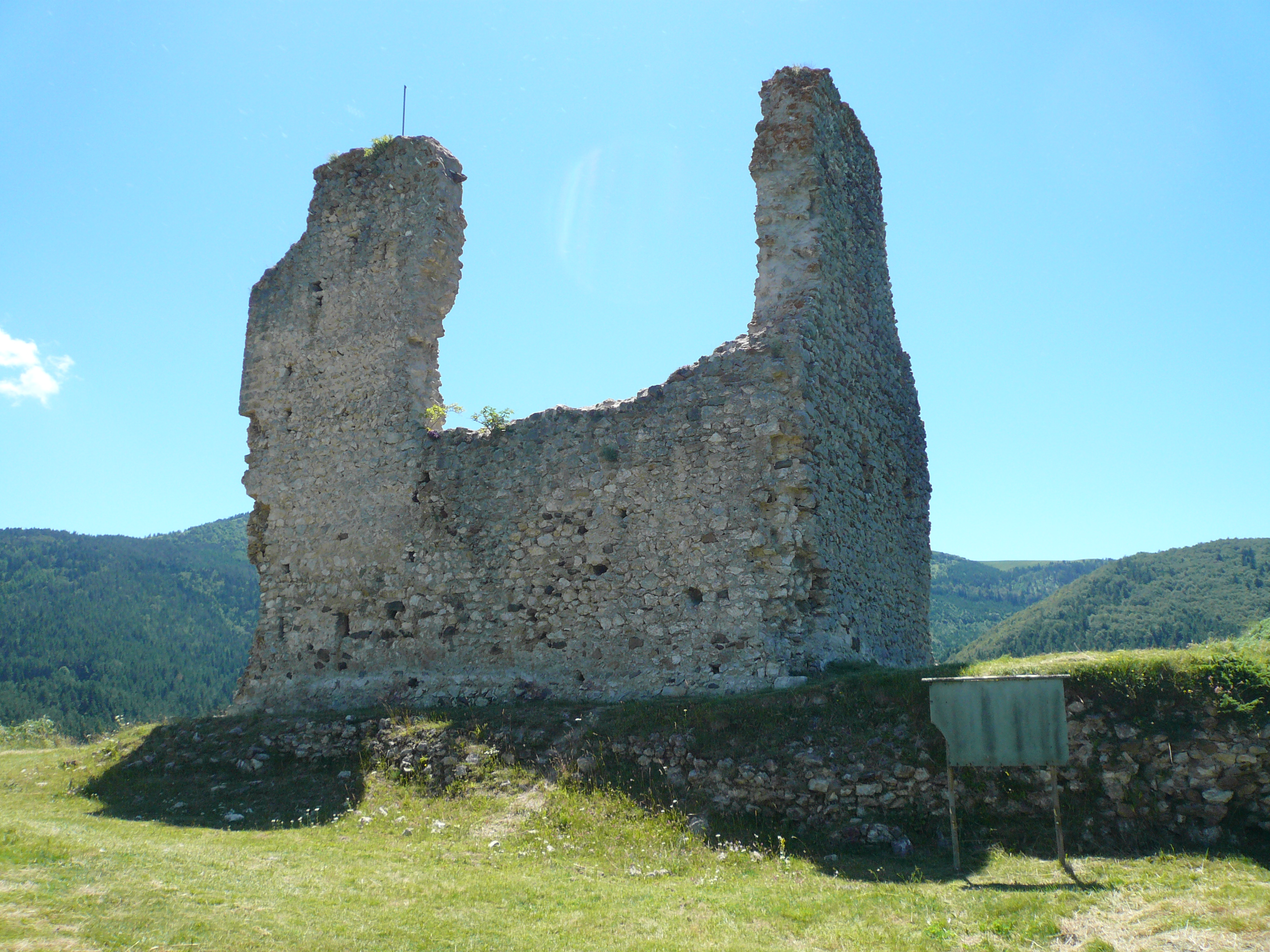 The castle of Montaillou, Ariège, Midi-Pyrénées, France.